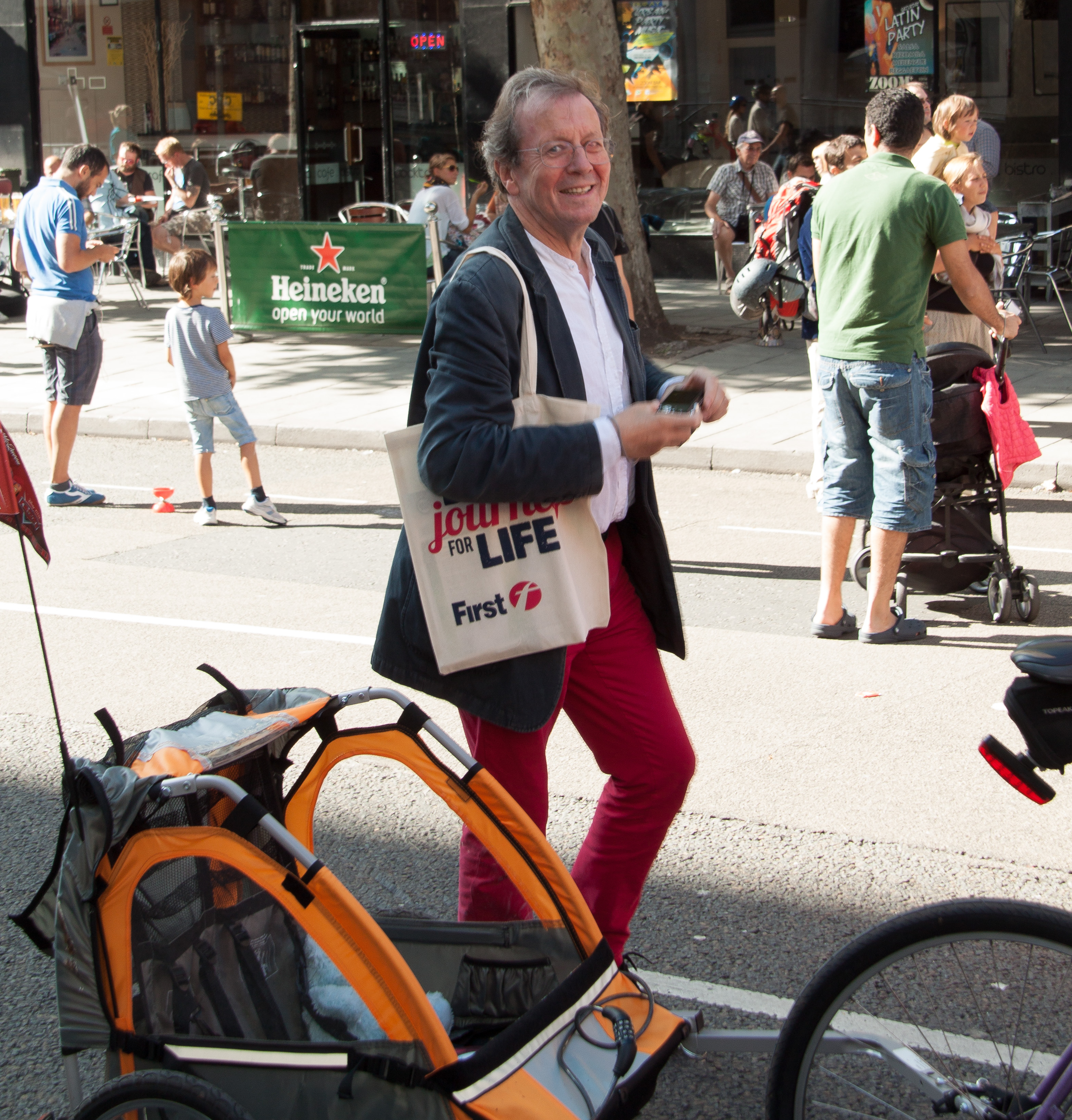 George Ferguson by PaulNUK